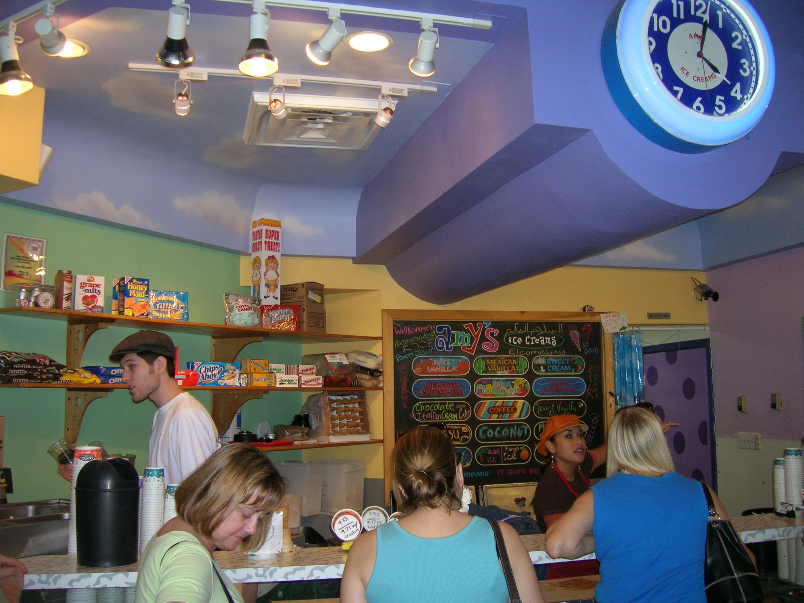 A picture of the Arboretum location of Amy's Ice Creams